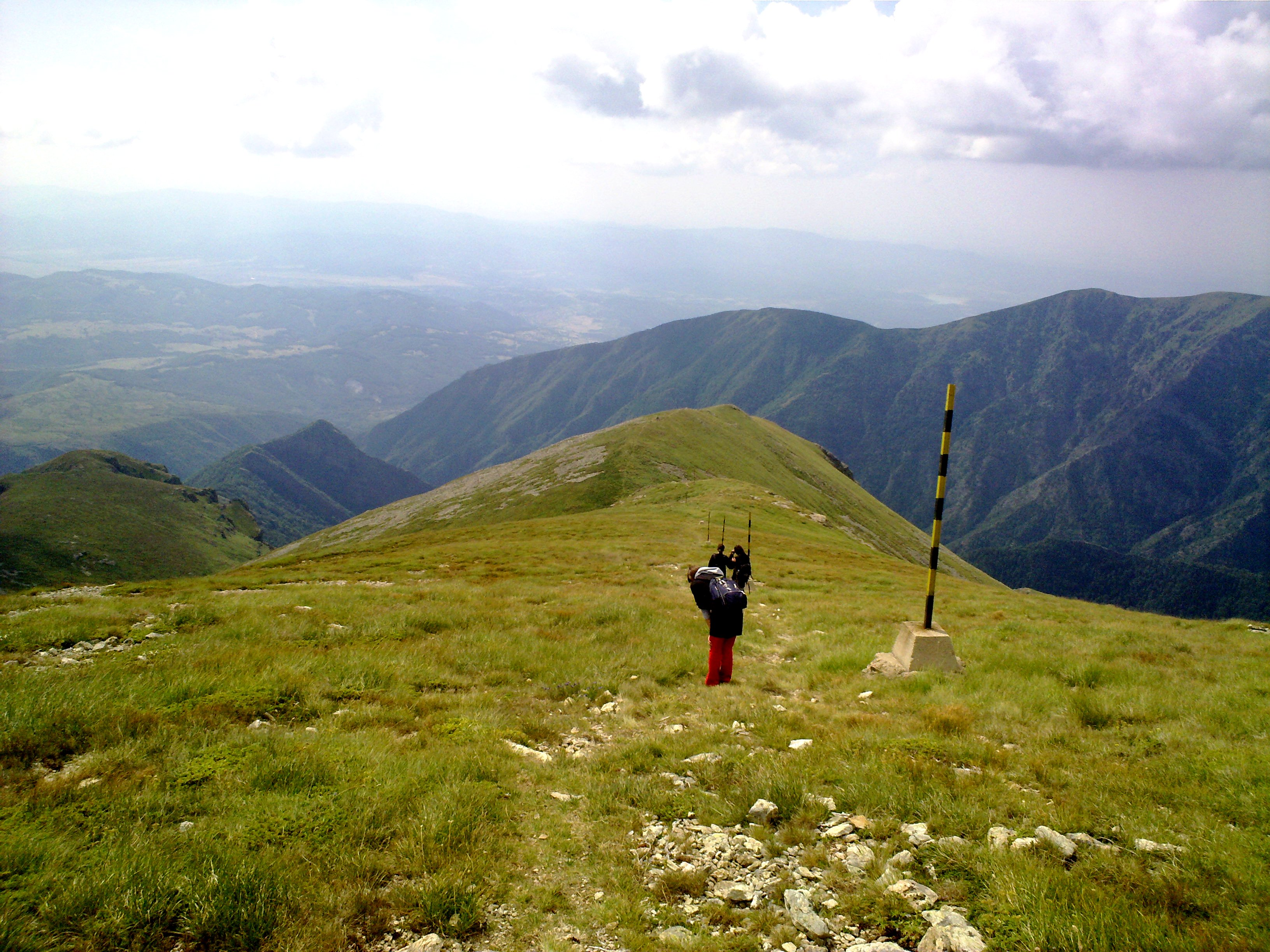 Me and my friends on a trekking weekend last year in a beautiful and majestic bulgarian mountain - Stara Planina.